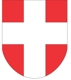 Coat of arms of Volhynian Oblast (Ukraine)